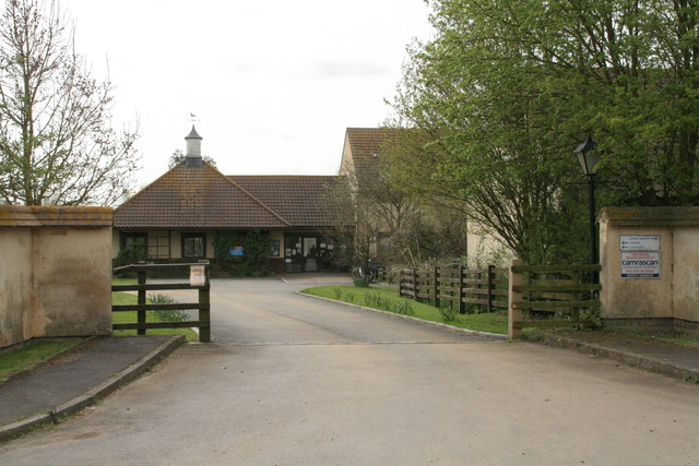 St Tiggywinkles Entrance to the world famous St Tiggywinkles Wildlife Hospital. The hospital takes in some 10,000 casualties a year. There is also a visitor centre open Monday to Friday in the winter and seven days a week in the summer.